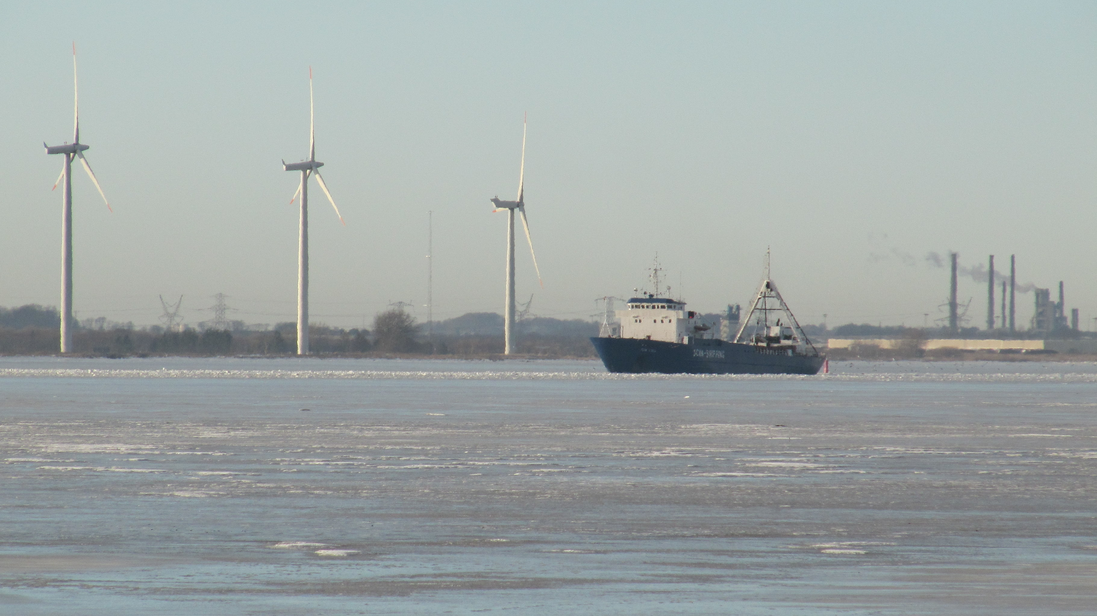 A ship at the Limfjord